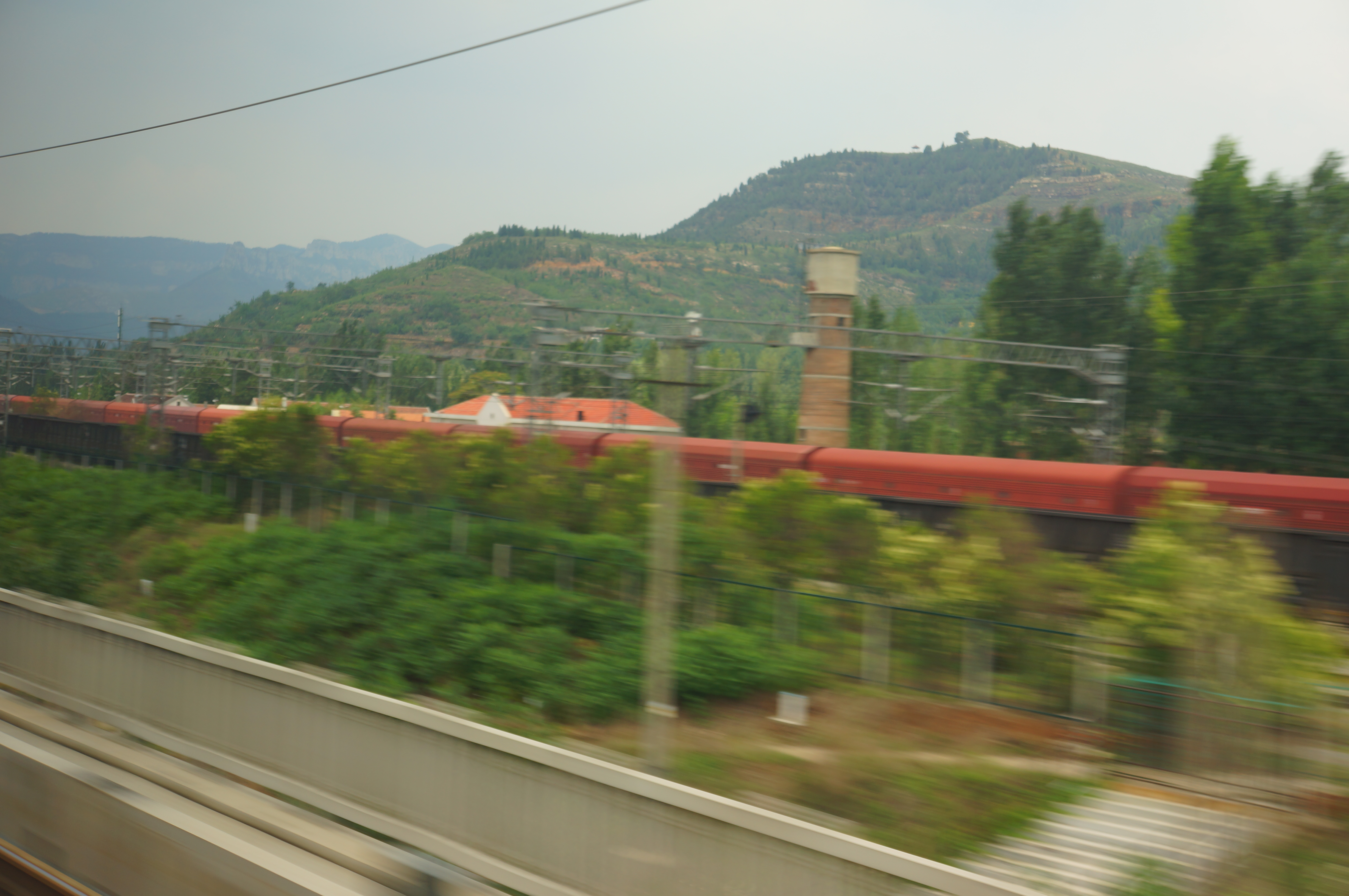 201616 Qingyang Station